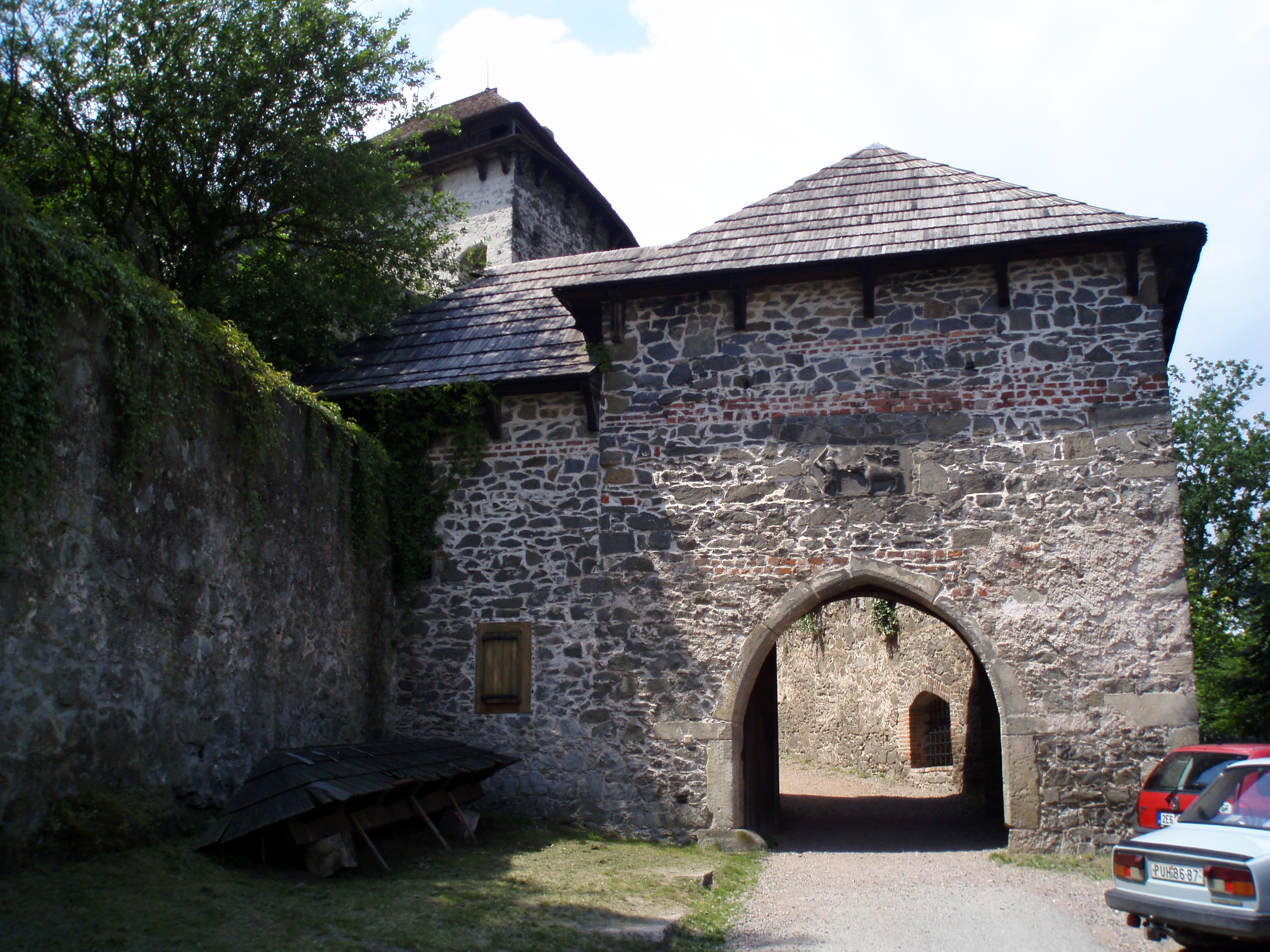 Kunětická hora Castle (CZ)